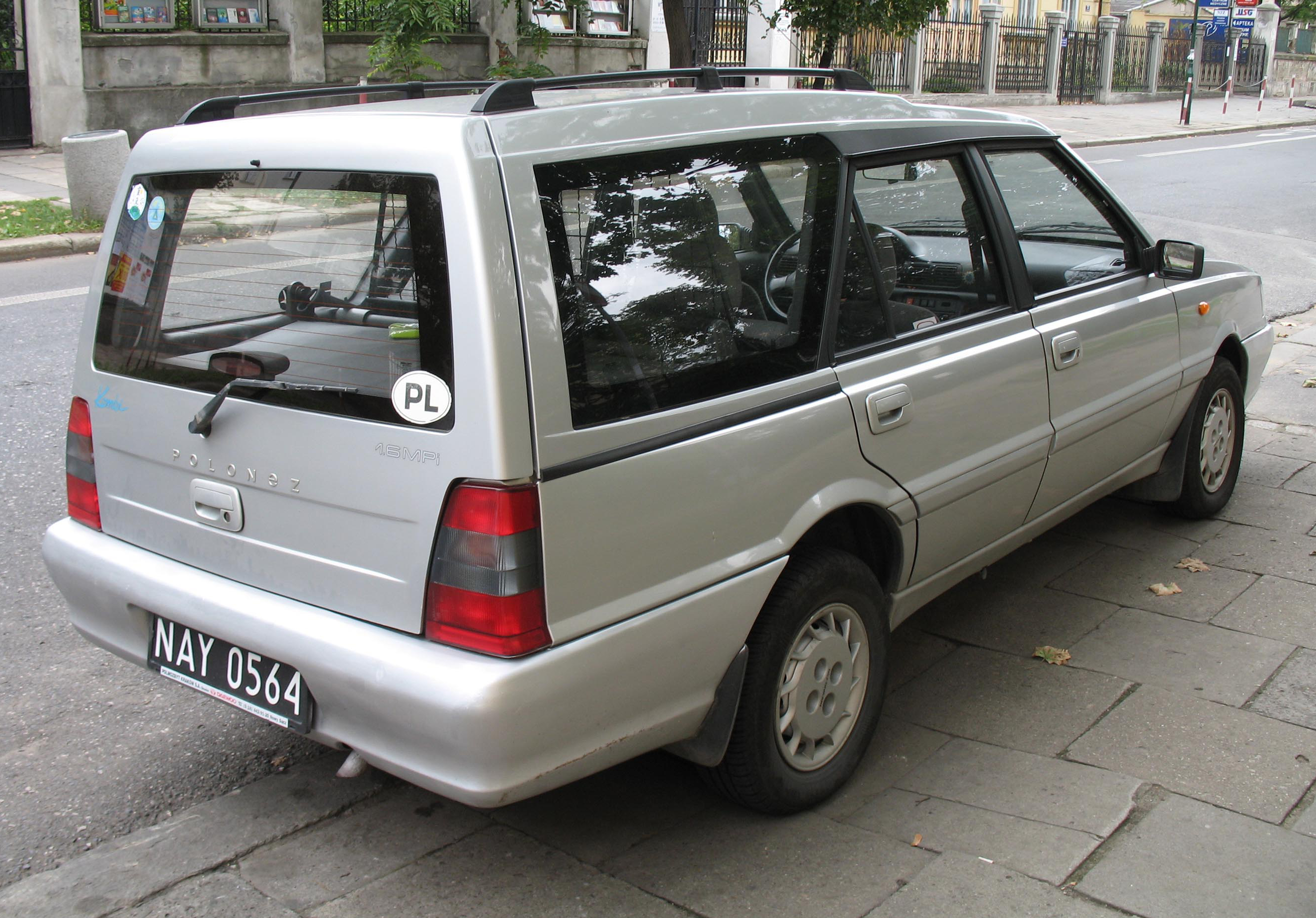 Daewoo-FSO Polonez Kombi 1.6 MPi car in Kraków, Poland.